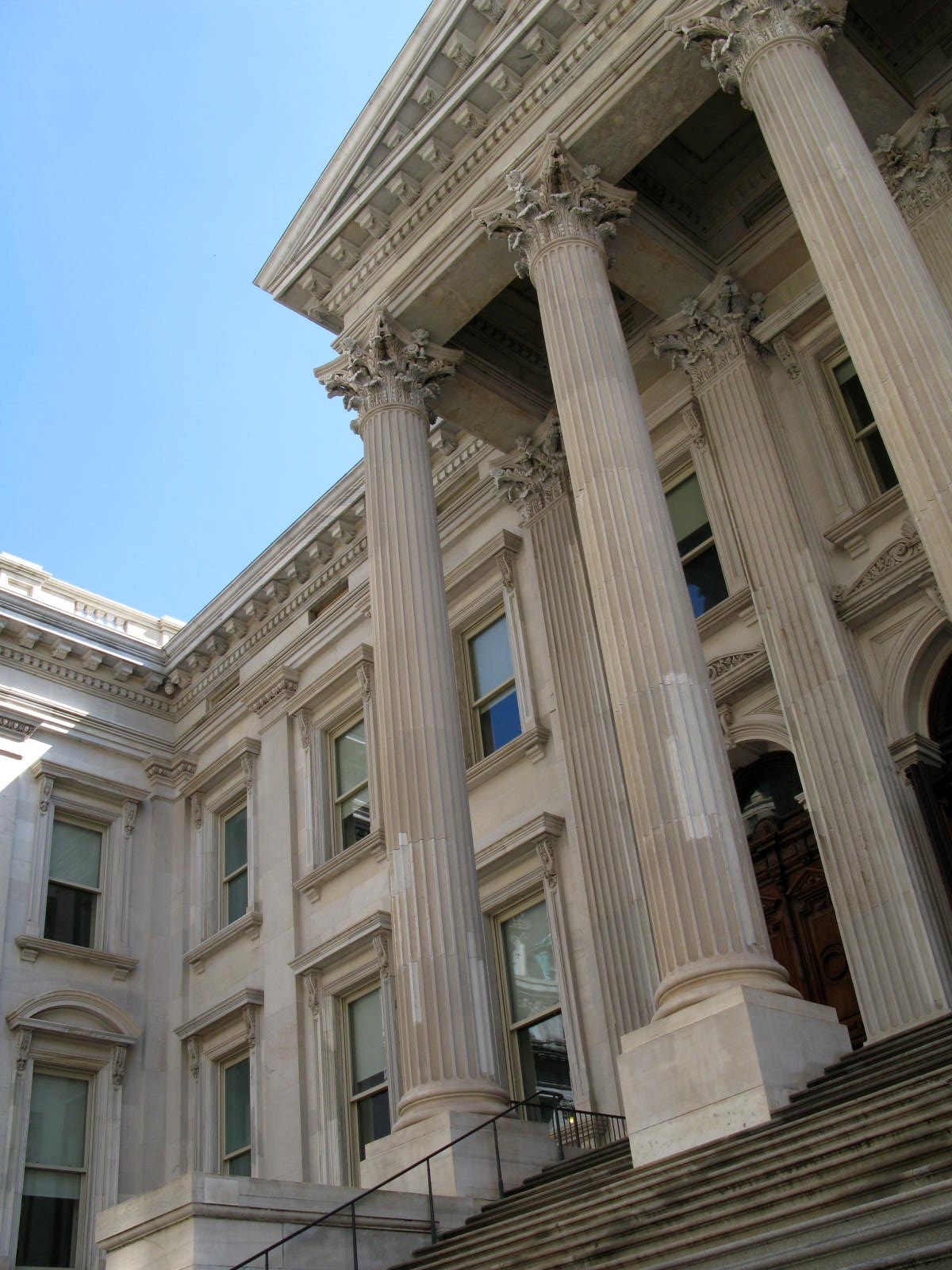 Tweed Courthouse, New York City — The headquarters of the New York City Department of Education